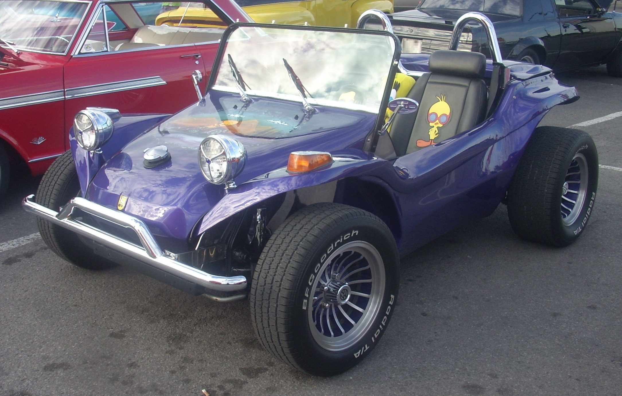 Volkswagen Dune Buggy photographed in Montreal, Quebec, Canada at Gibeau Orange Julep.